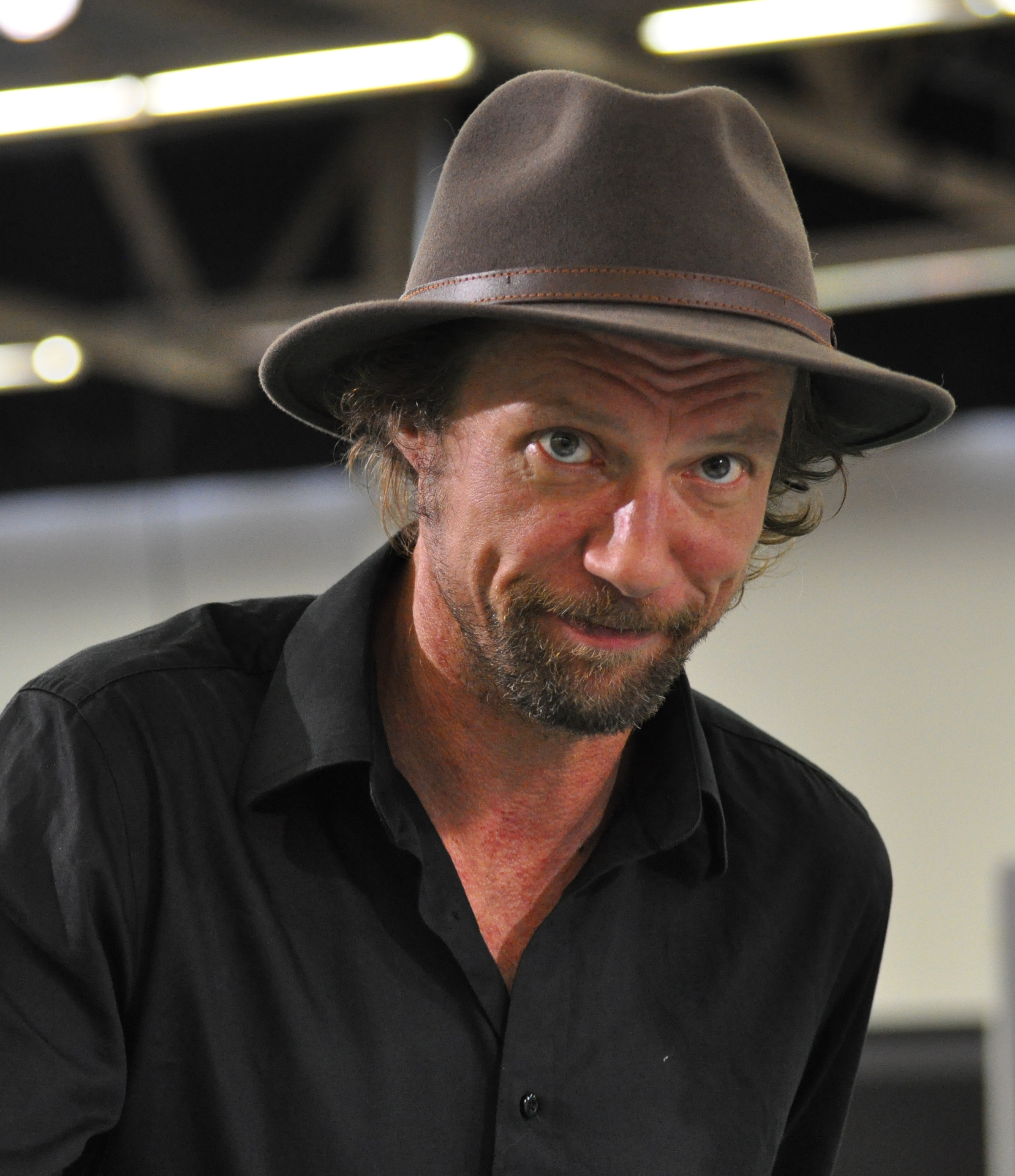 Finnish actor Antti Reini at the Turku Fair, 2011.